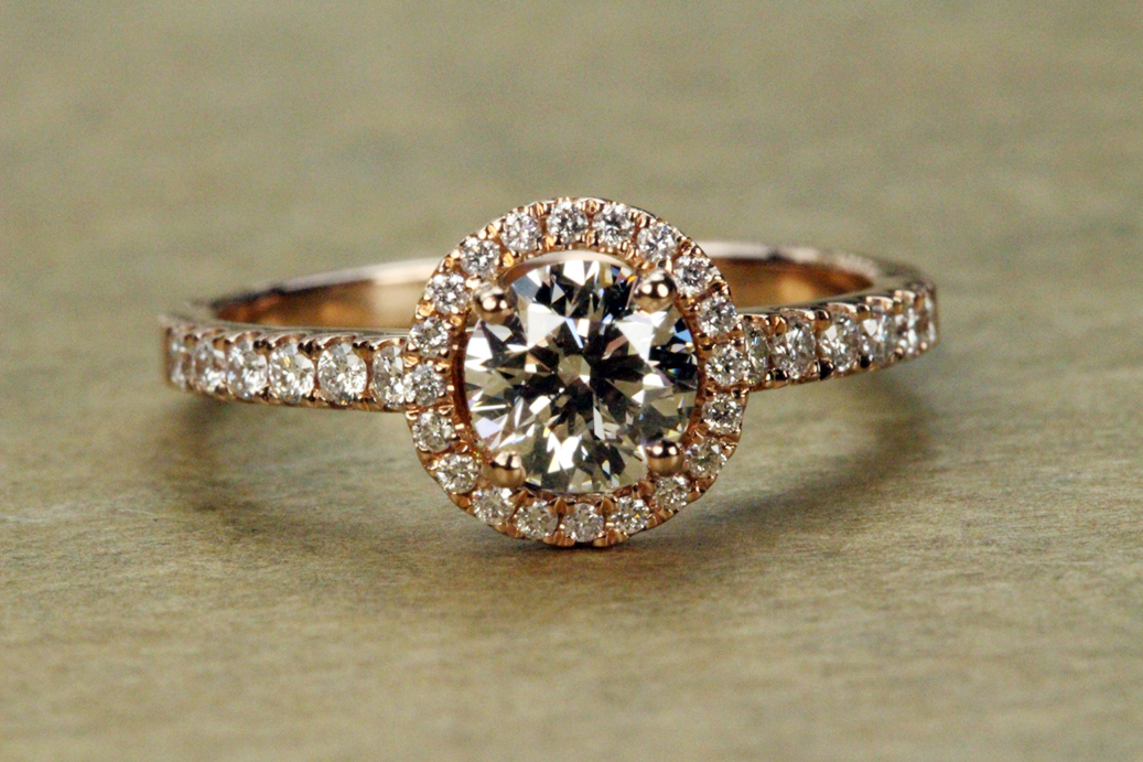 Unique Rose Gold Halo Diamond Engagement Ring. Please feel free to use it with credit to Petra Gems.